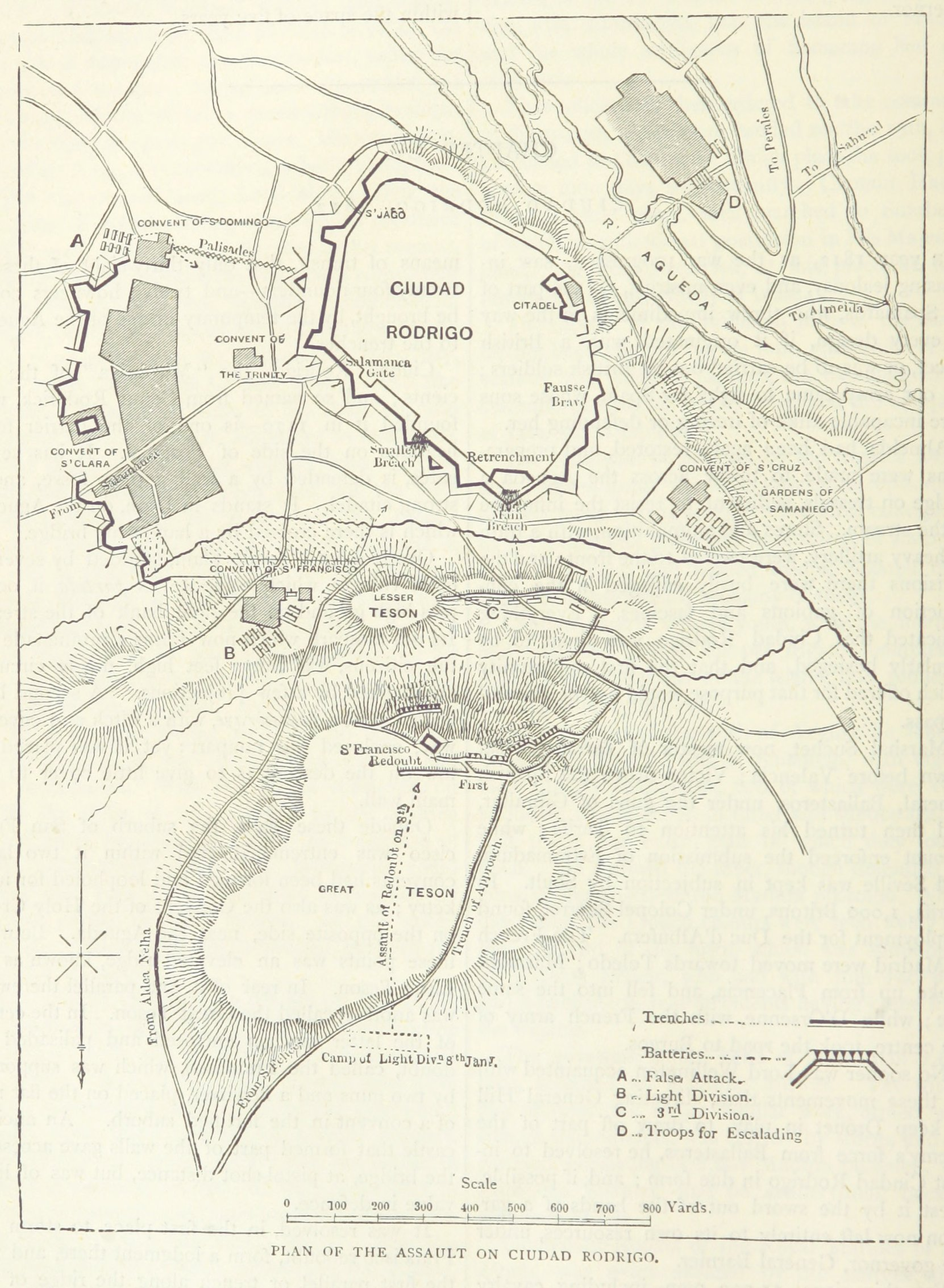 A map of the 1812 Siege of Ciudad Rodrigo, where English forces assaulted the French-held fortress.